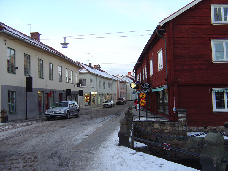 City Eksjö in Småland, Sweden, 2005